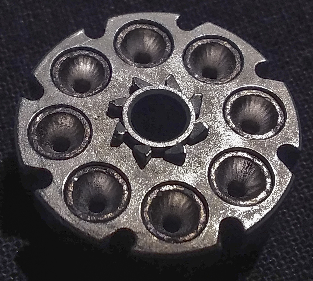 Revolver-magazine with inserted Diabolo-pellets. Used in Co2-pistols.